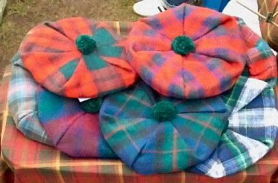 Several tam o shanters in various tartans. Taken on 5SEP04 by Dr Haggis.